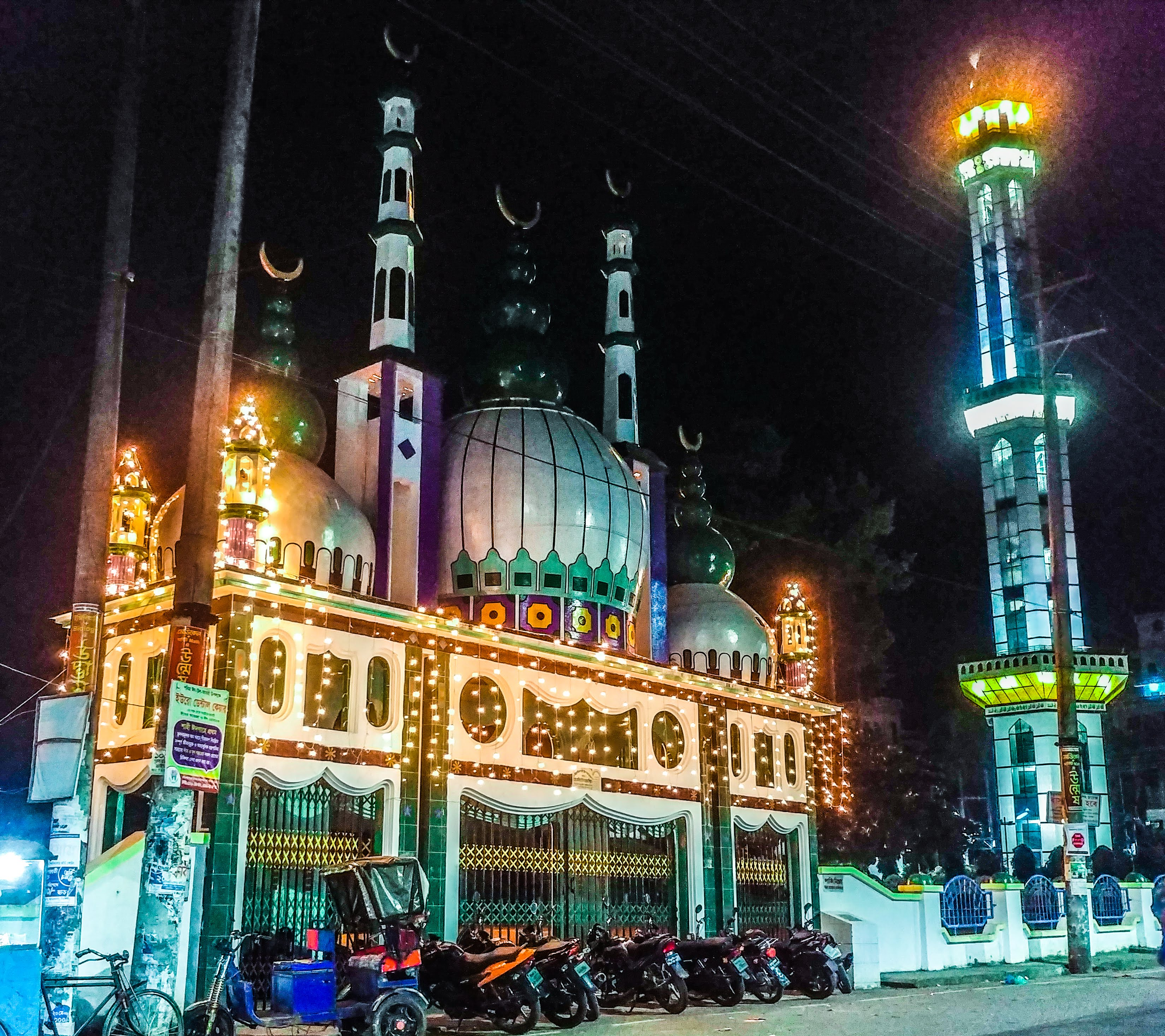 Shahi Eidgah on the evening of Eid al-Adha 2019